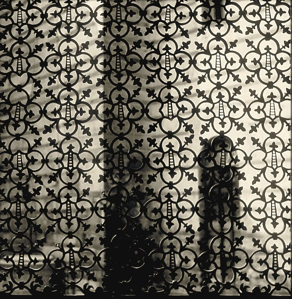 The iron fence of the scaliger tombs